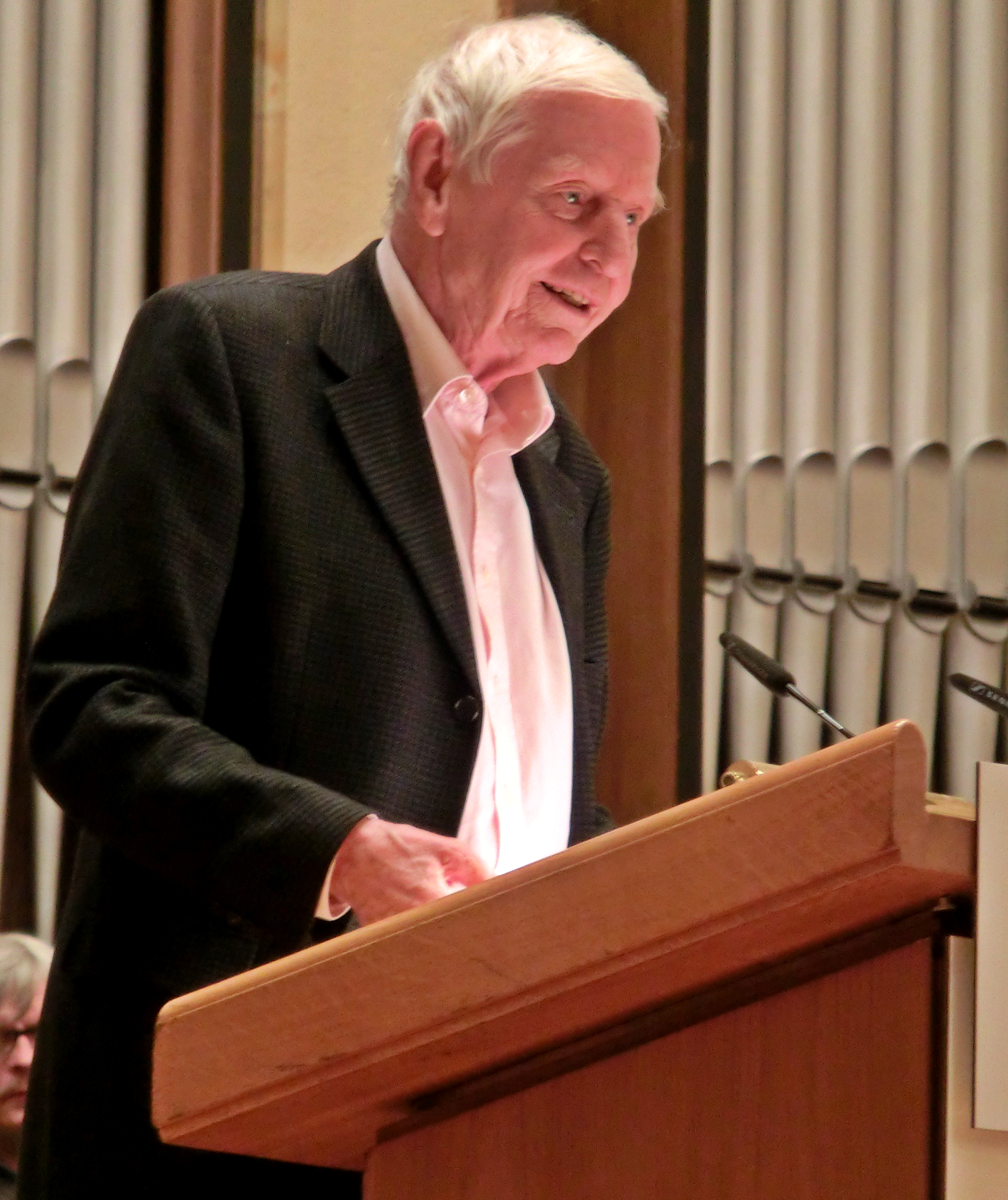 Hans Magnus Enzensberger (* 1929), German poet, author, translator and editor, on 18th November 2013 during a lecture at the University of Tübingen.